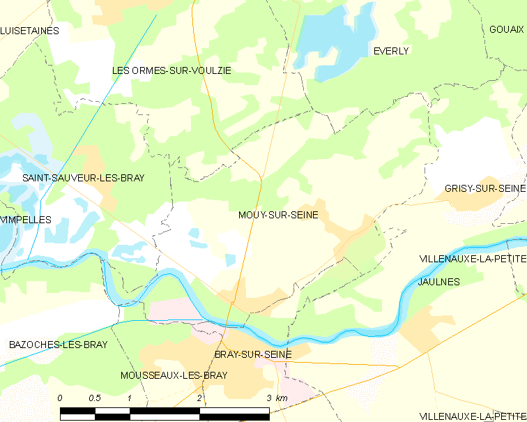 Map of French municipality Mouy-sur-Seine